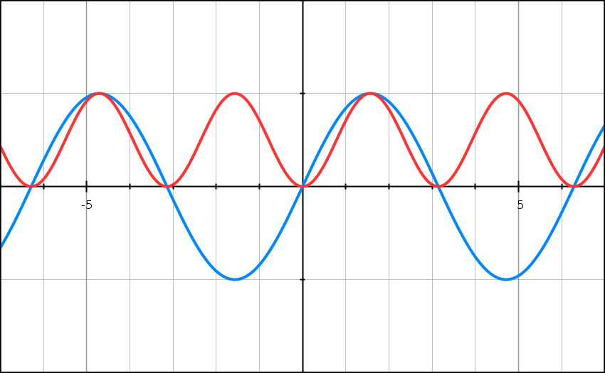 A graph of the sine function is in blue. A graph of the sine-squaired function is in red.